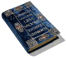 Opgetekende mirakelen Zoete Lieve Vrouw (1381-1603)